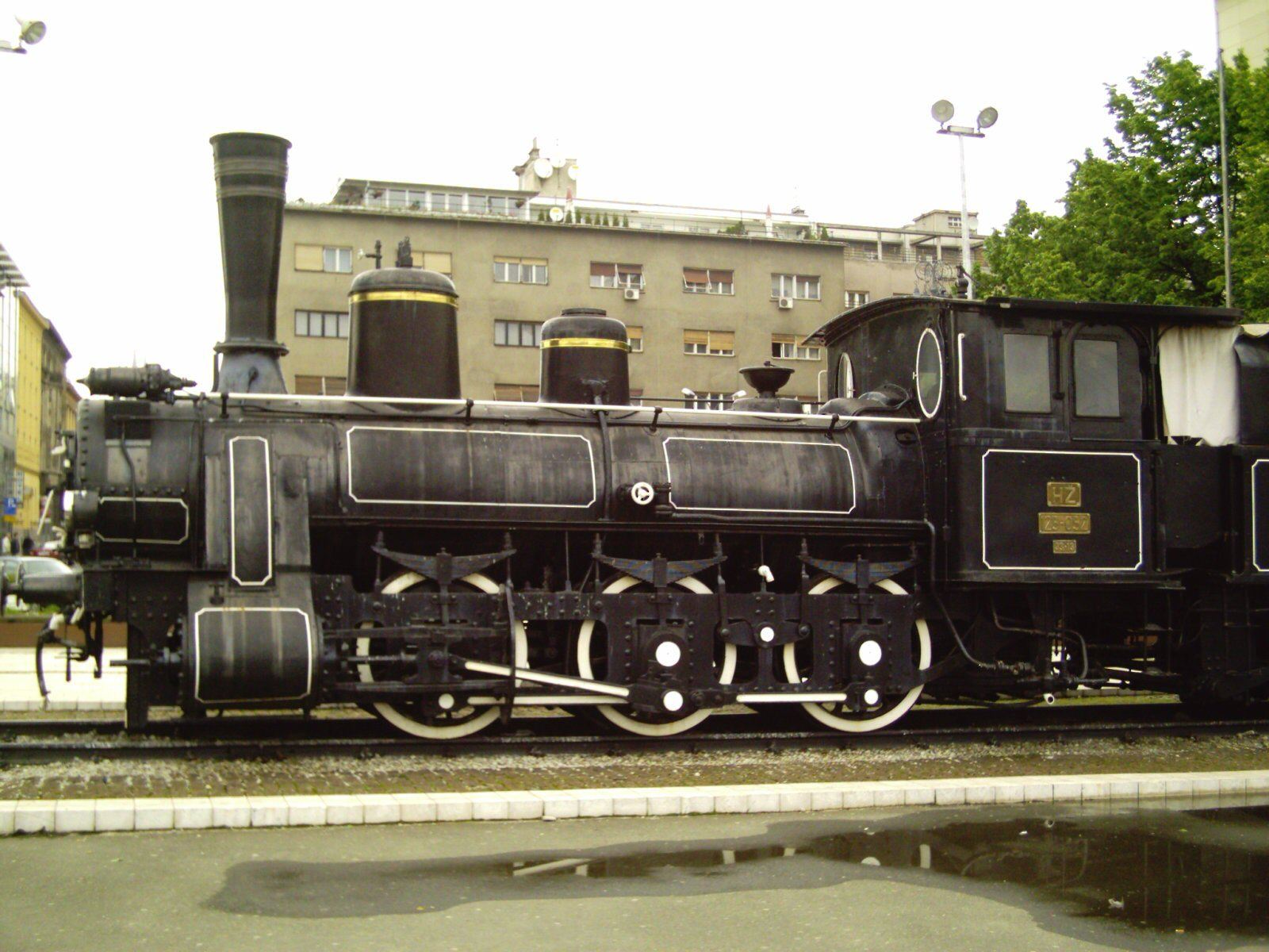 JŽ 125-052, former MAV 326 class.